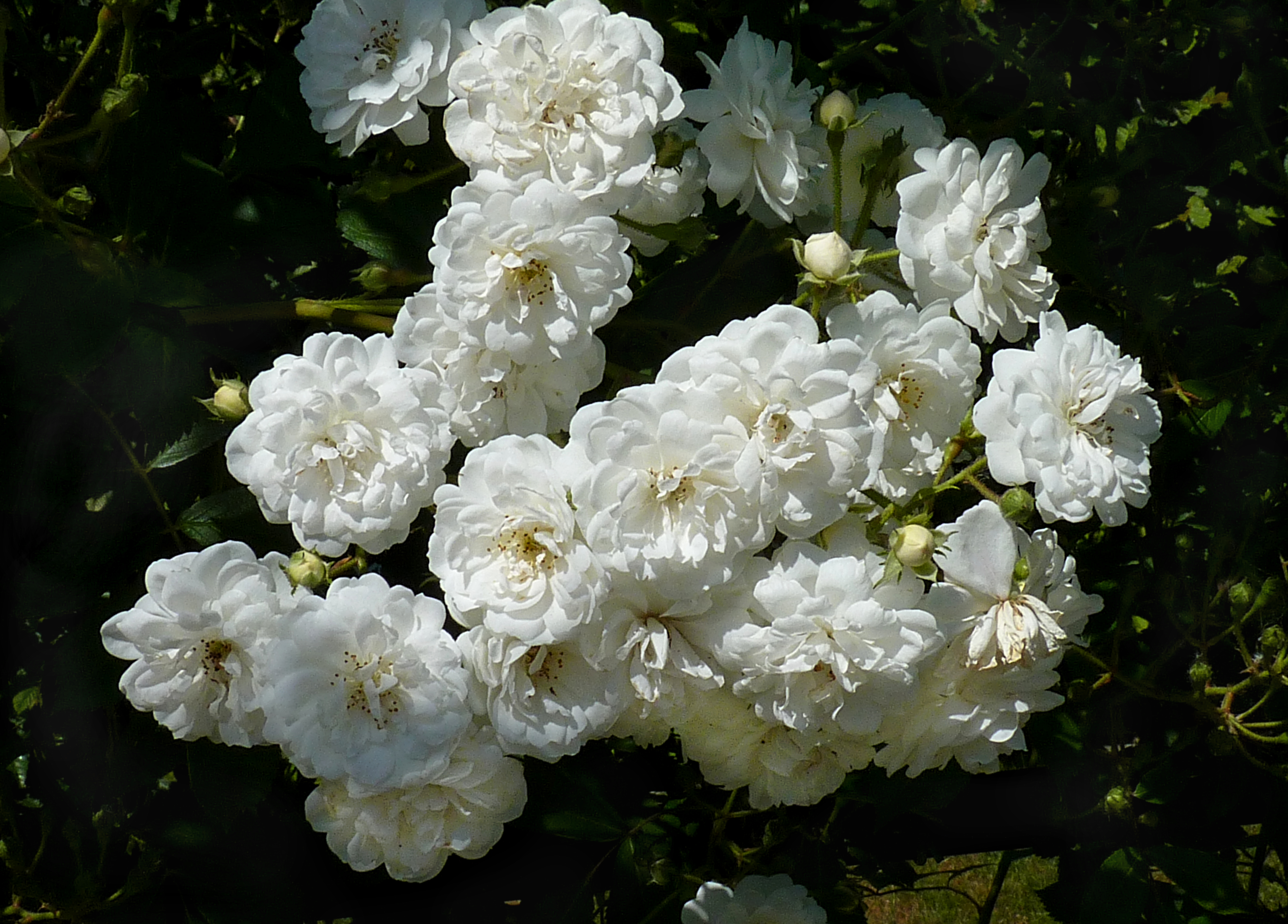 Rosa 'Guirlande d'amour' (Louis Lens, 1993), in the international rose garden of Kortrijk, Belgium.